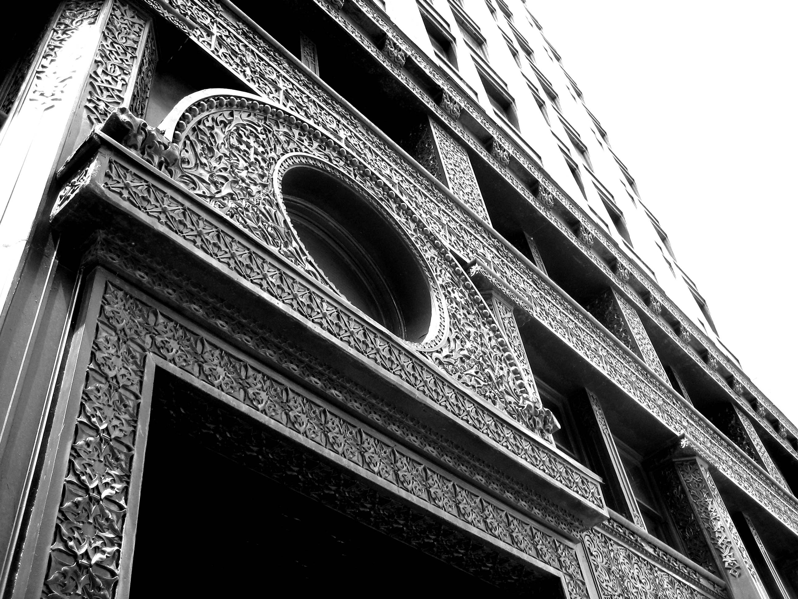 The Rockefeller Building in Cleveland, Ohio